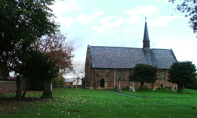 St Peter's parish church, Wolviston, County Durham